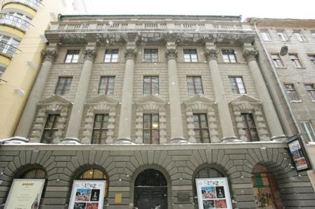 Фасад музея в Ермолаевском переулке, 17